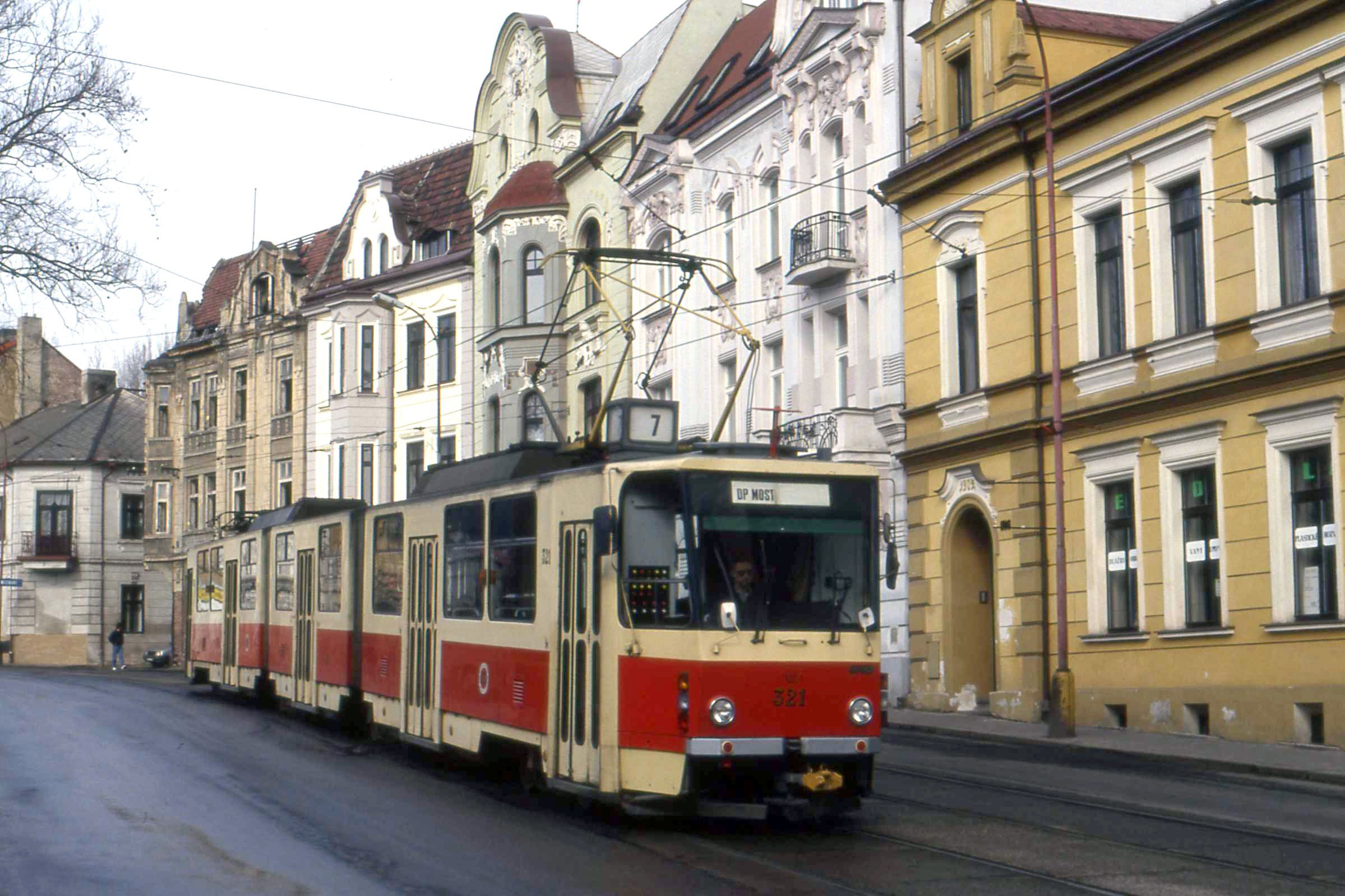 Tatra KT8D5 Tram 321 in Litvínov , Czech Republic March 1994